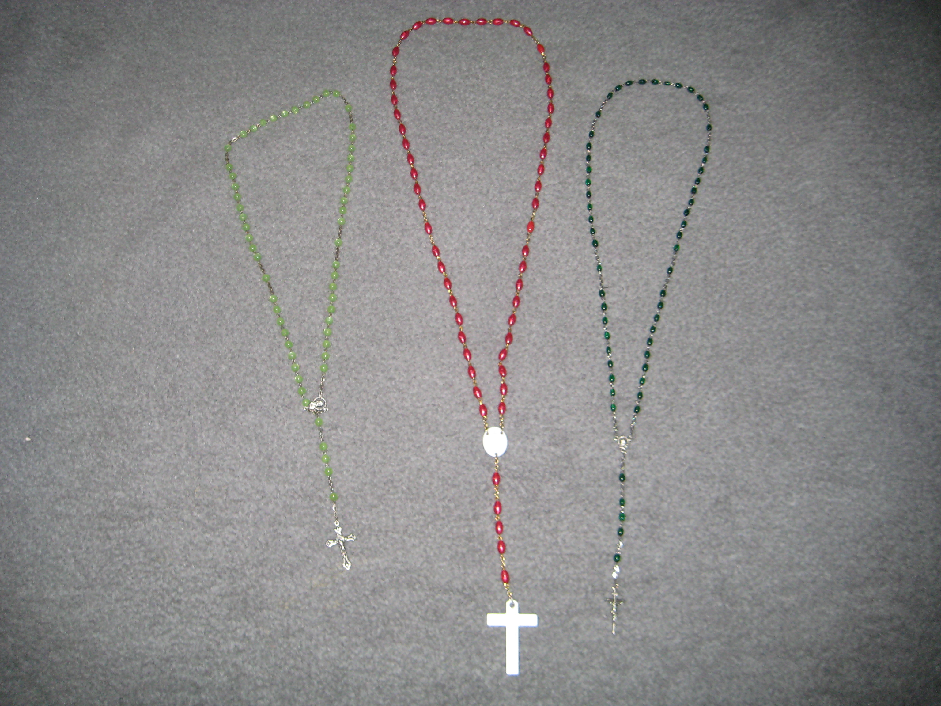 Rosary 53